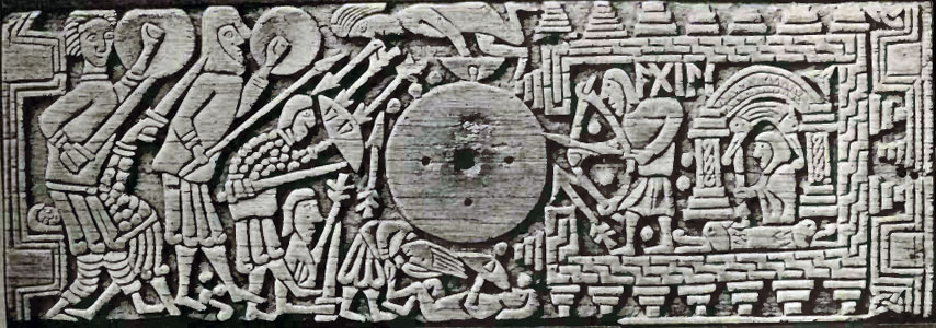 Detail of :Image:ranks Casket - Lid.jpg|Franks Casket - Lid , cropped and lighten.